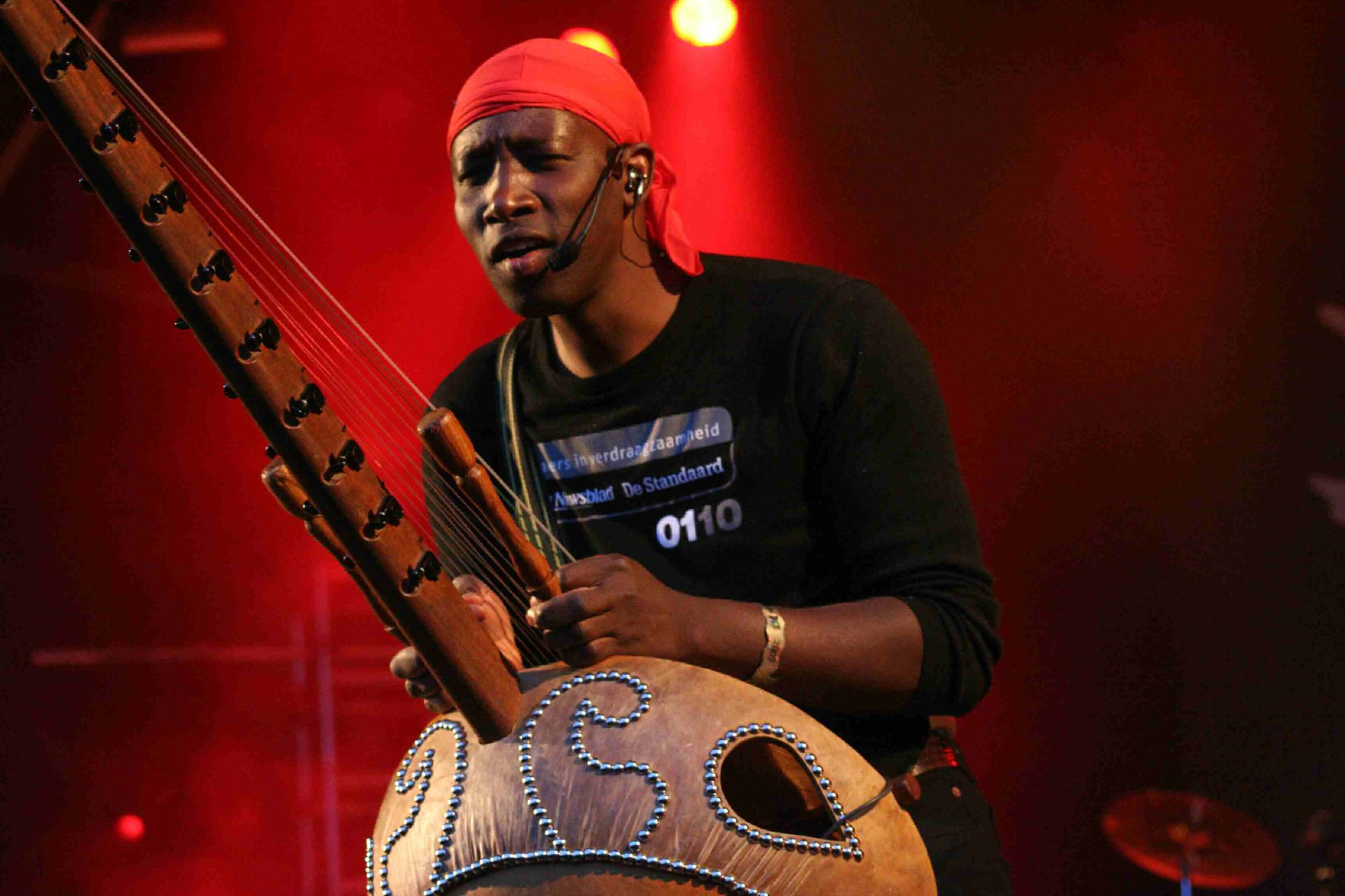 N'Faly Kouyate, Afro Celt Sound System; Beautiful Days Festival, Devon, August 21st 2007